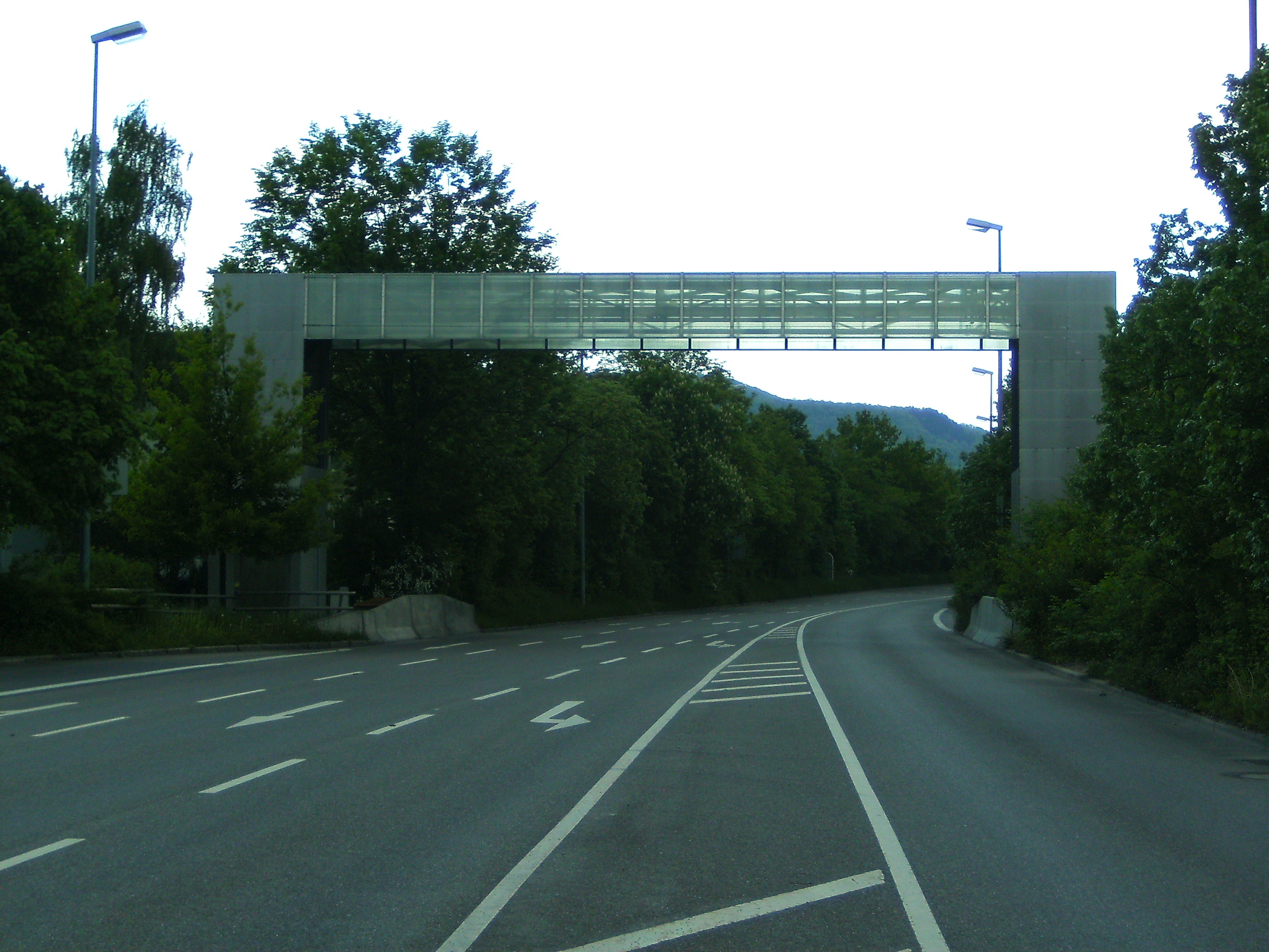 People mover of Pfullingen - OpenStreetMap(Info)